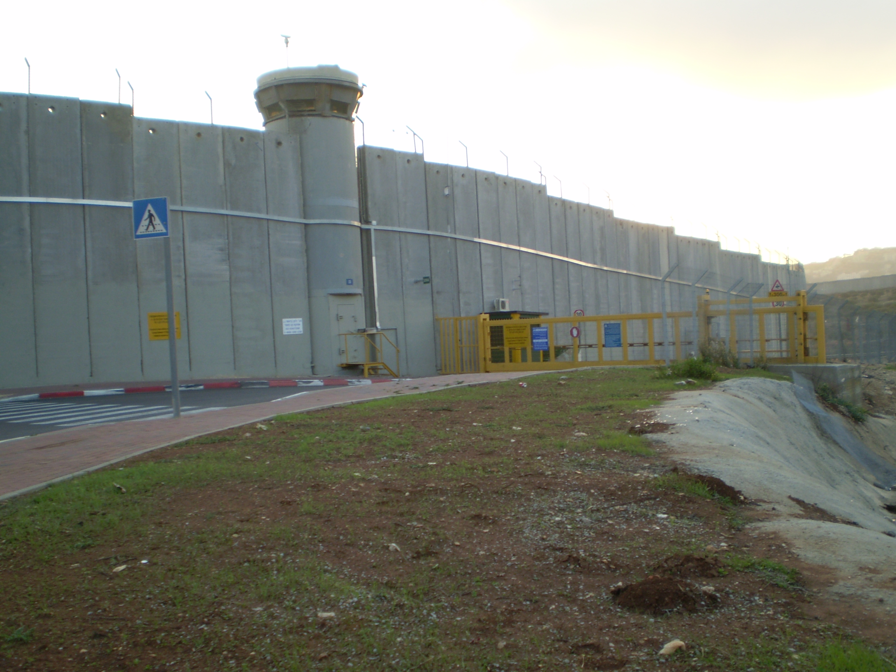 Israeli checkpoint near Rachel's Tomb